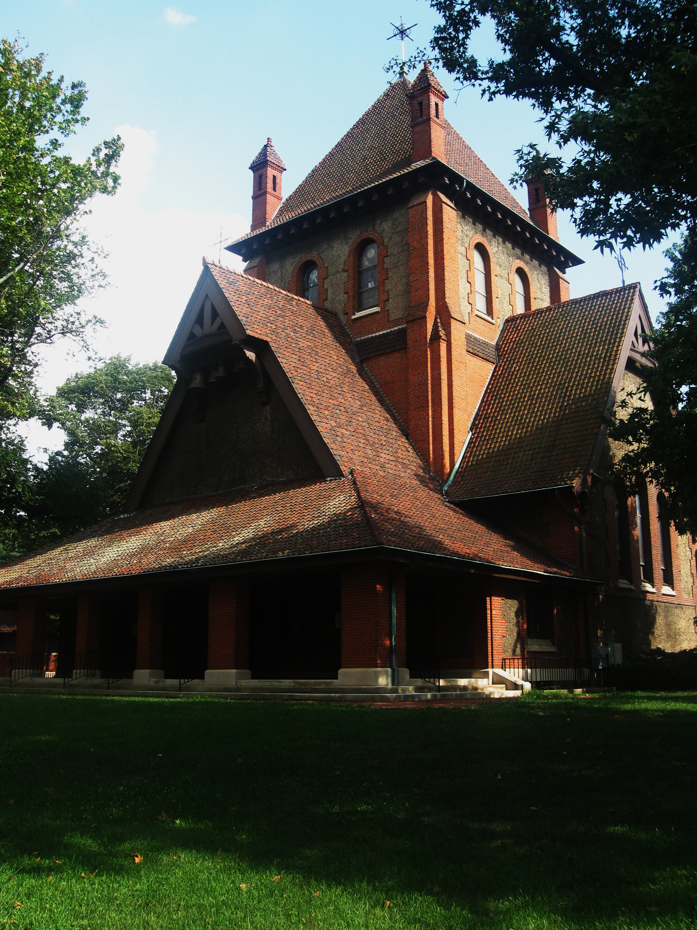 Cathedral of All Souls in Biltmore Village, Asheville, North Carolina. Taken August 3rd, 2010.